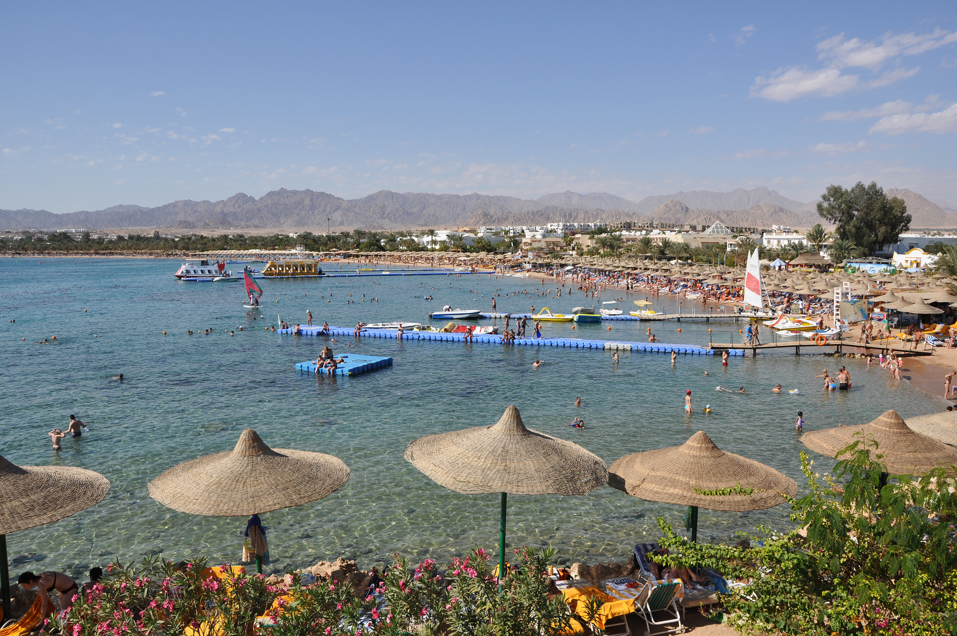 Sharm el-Sheikh (Egypt): panorama of Naama Bay